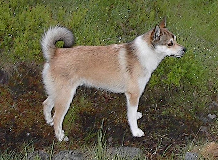 Picture of a Norwegian Lundehund, N UCH Ålvisheims Hårek. He was born on 2002-04-16 and was thus about a year when the picture was taken.